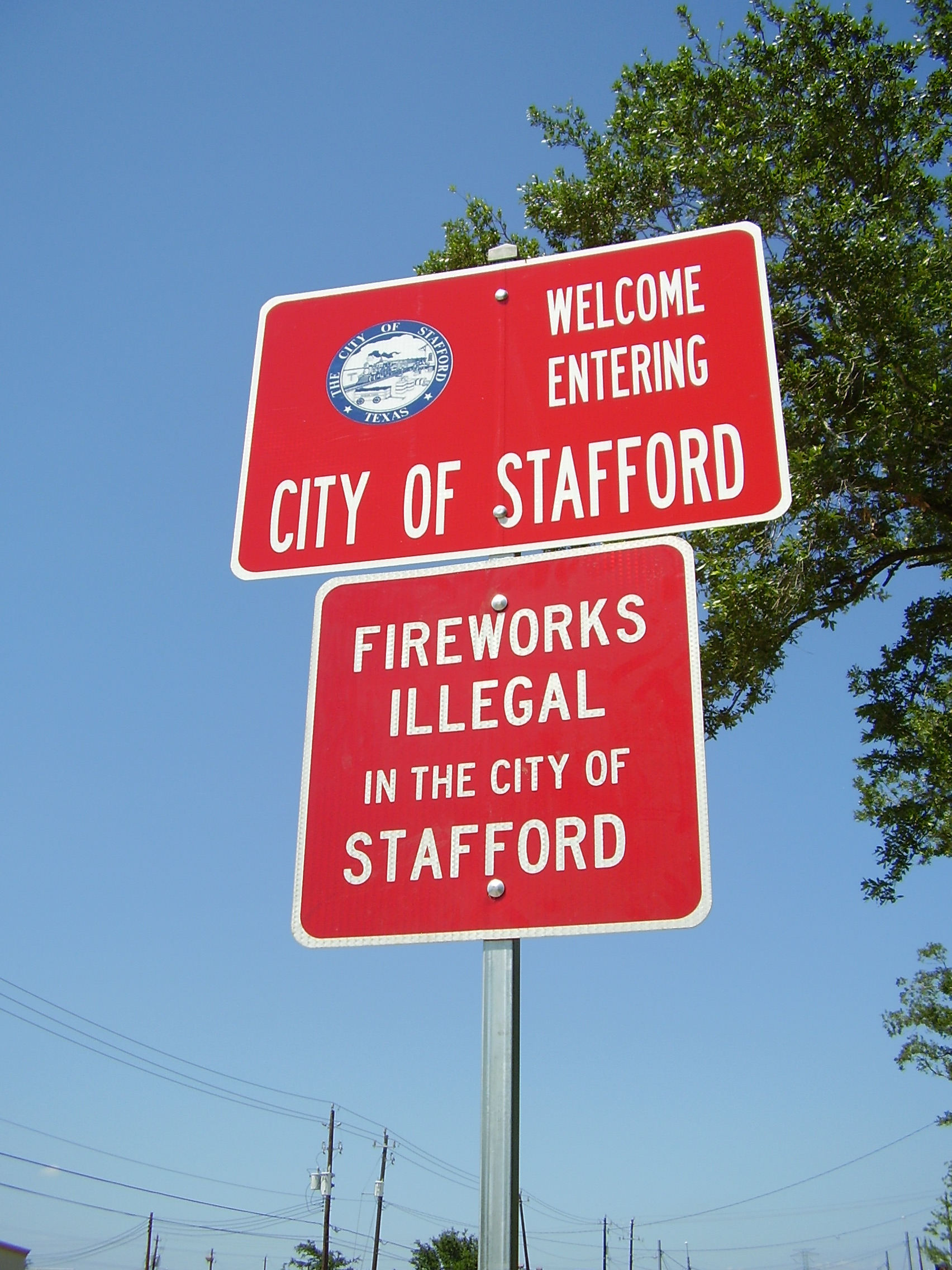 Stafford welcome sign announcing that fireworks are illegal in the city